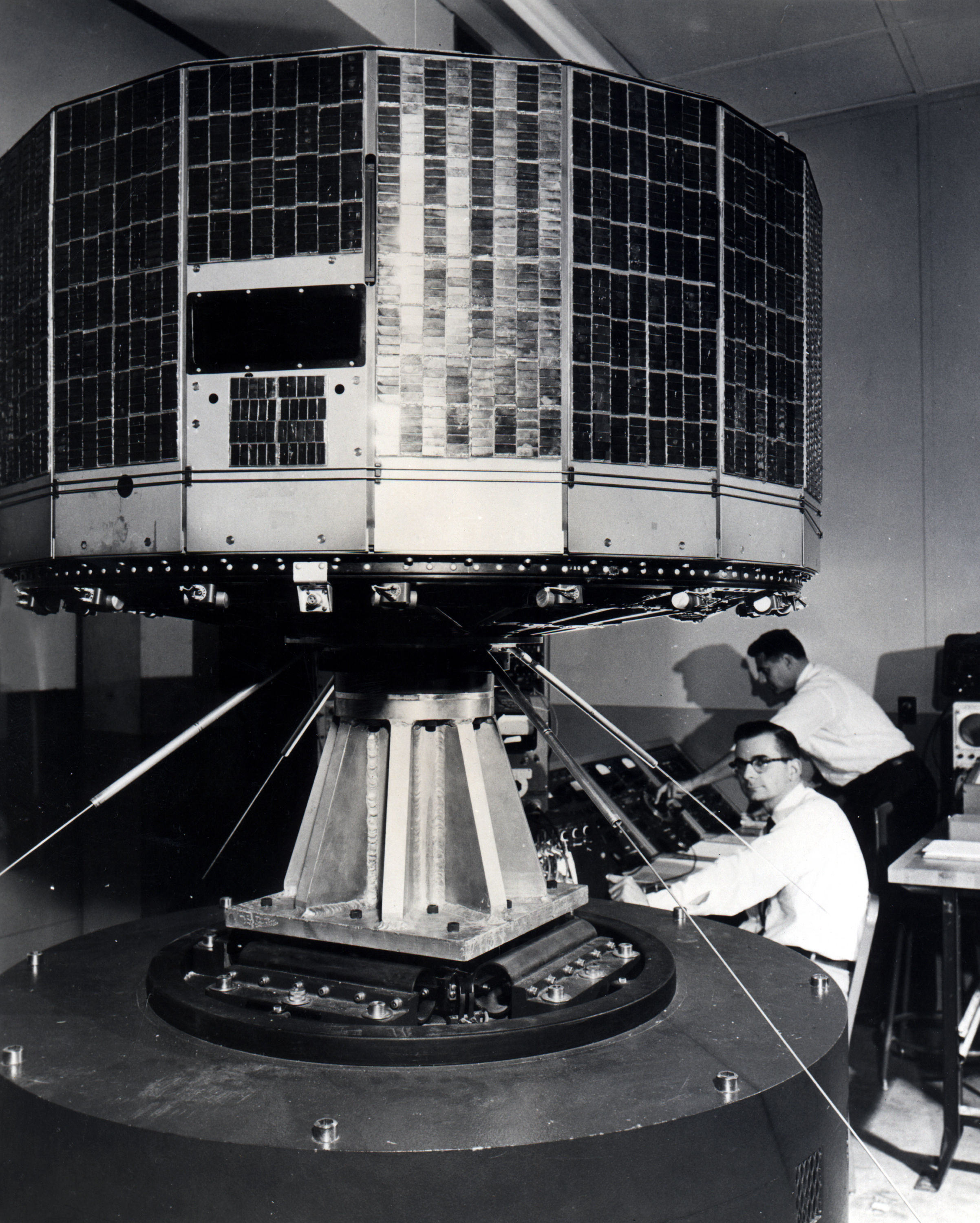 Scientist giving a vibration test to TIROS, Television Infrared Observation Satellite, at the Astro-Electronic Products Division of RCA in Princeton, New Jersey. TIROS was NASA's first experimental step to determine if satellites could be useful to study the Earth. The first priority of the TIROS program was the development of a meteorological satellite information system. It provided the first accurate weather forecasts based on data gathered from space. The first TIROS was launched on April 1, 1960, from Cape Canaveral, Florida, and was operational for 78 days. The satellite was designed and constructed by Radio Corporation of America (RCA) under the technical supervision of the U.S. Army Signal Research and Development Laboratory, Ft. Monmouth, New Jersey.